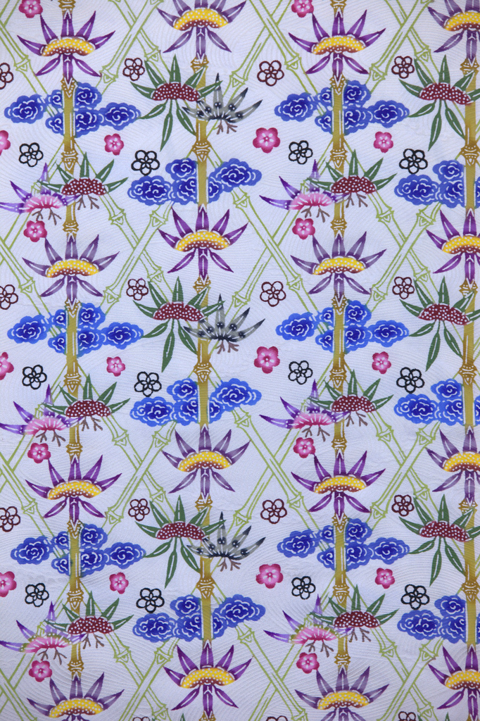 Ryukyu Bingata by Sadao Chinen